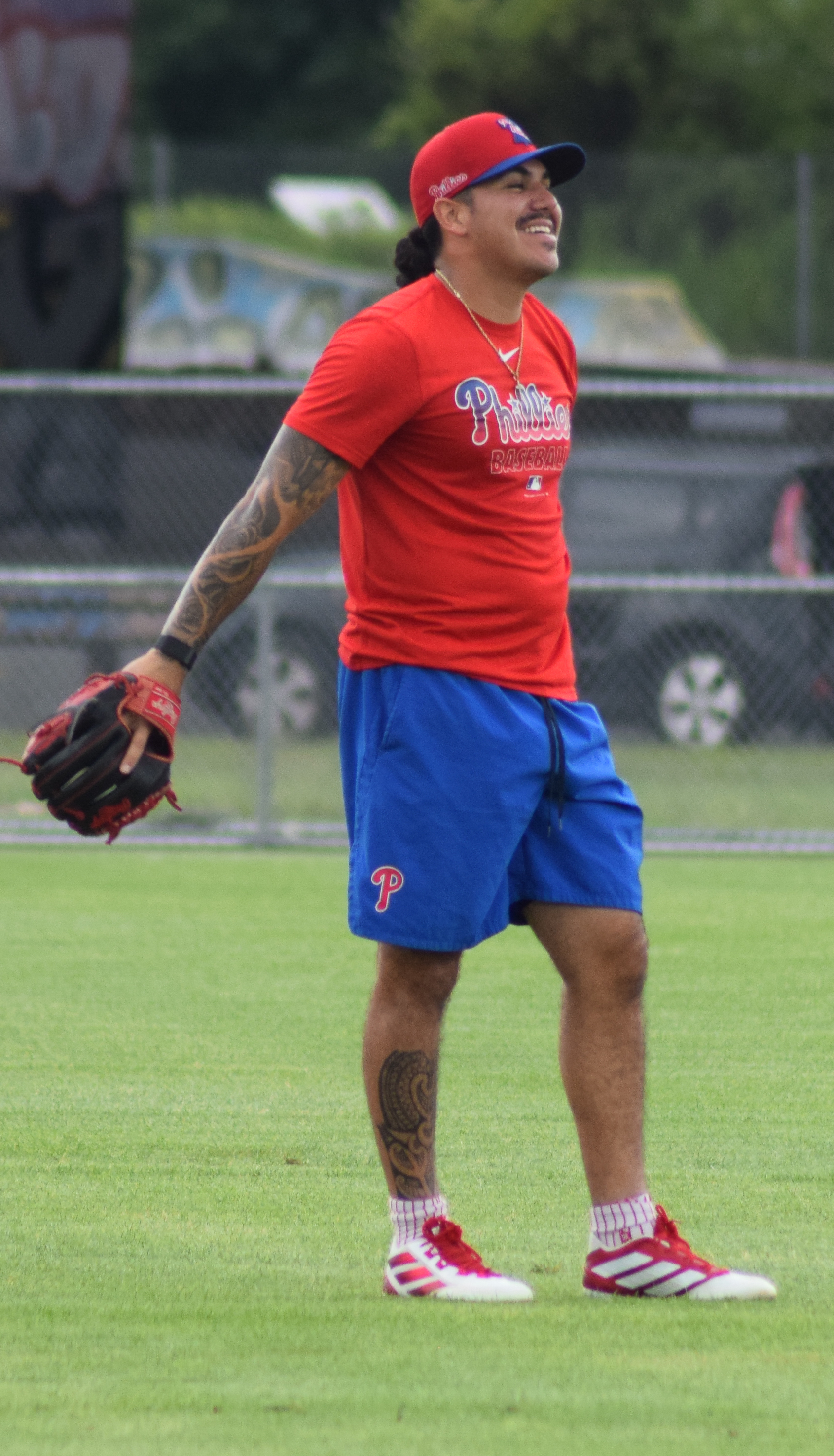 JoJo Romero